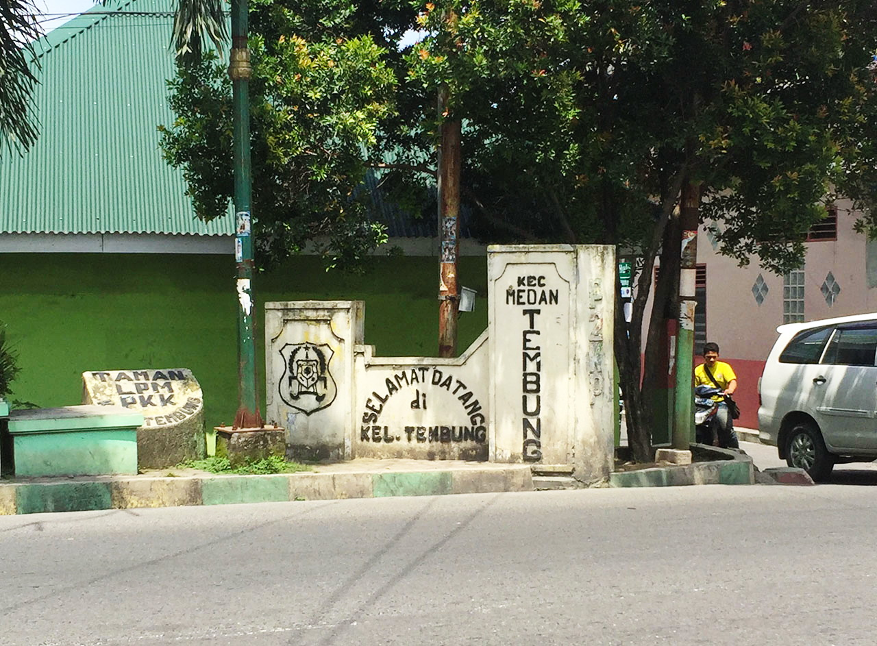 welcome gate to Tembung, Medan Tembung, Medan